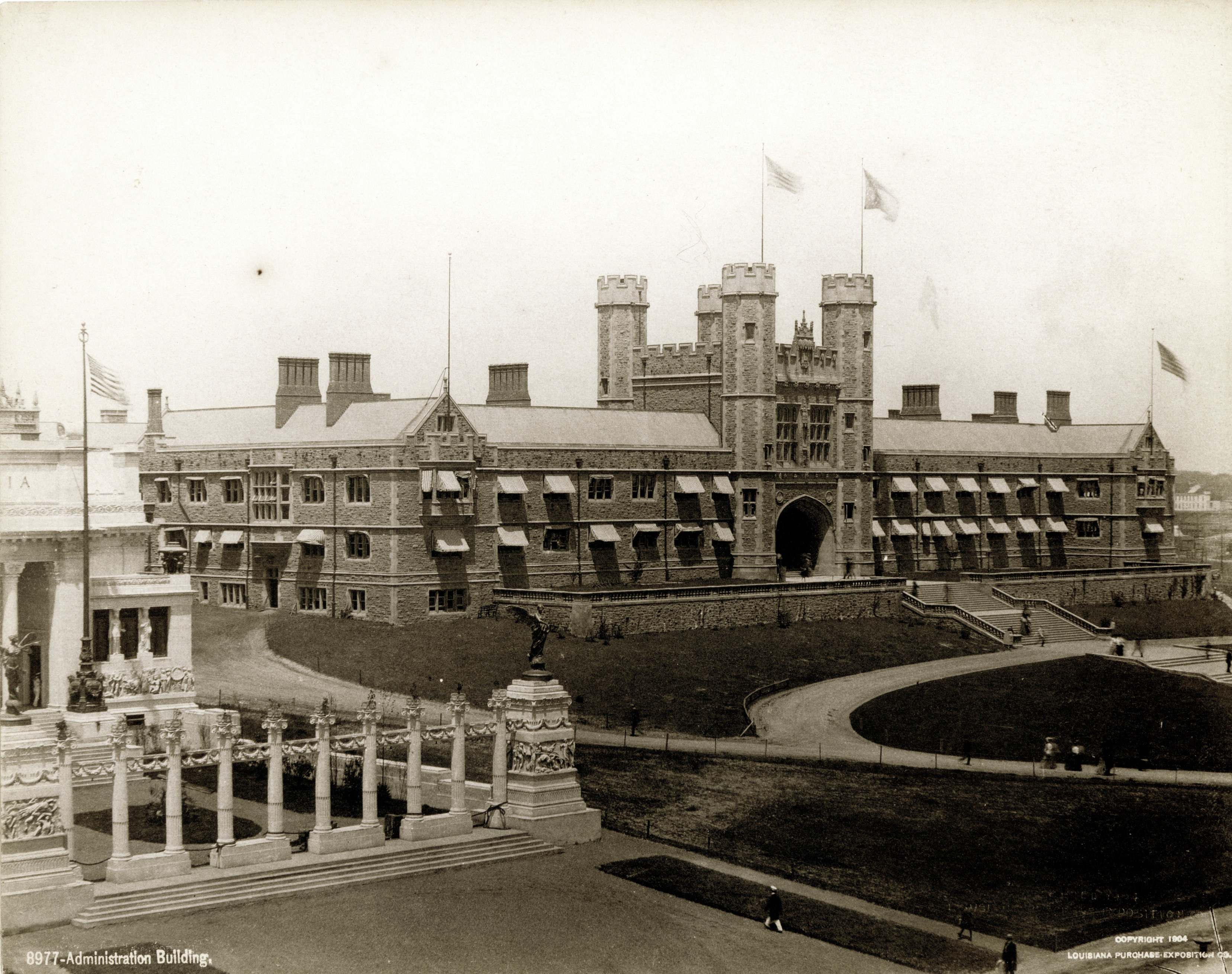 Title: 1904 World's Fair Administration Building (Brookings Hall, Washington University) seen from the southeast with the Italian Pavilion in the foreground.